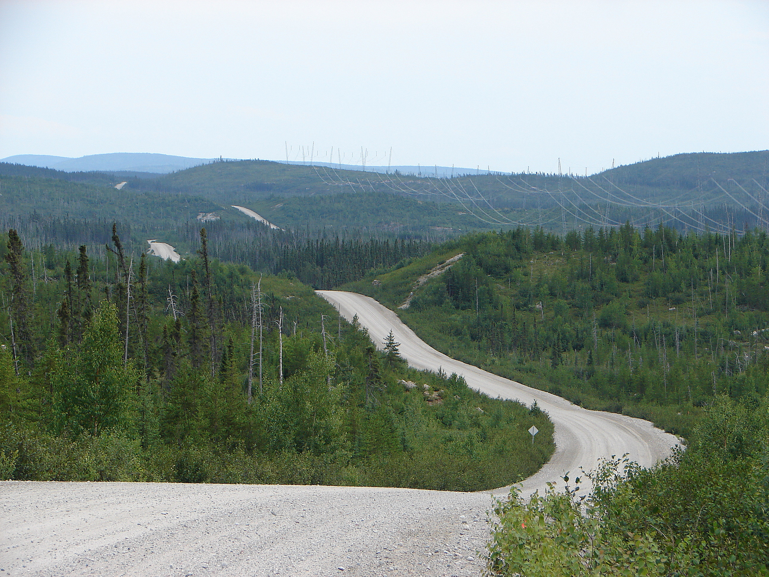 Route du Nord, northern Quebec, Canada.